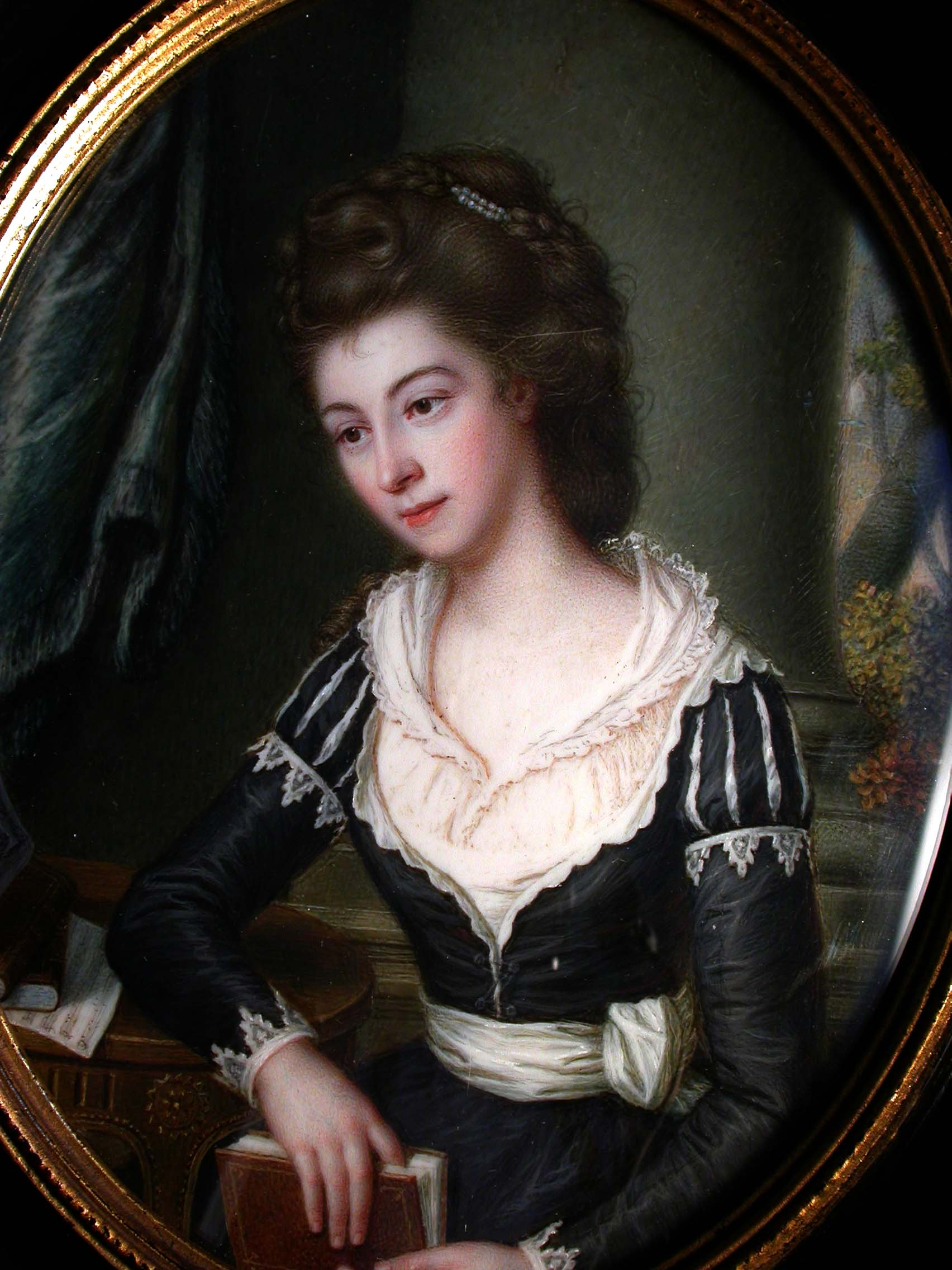 James Scouler, Miss Mary Jolly, 1783